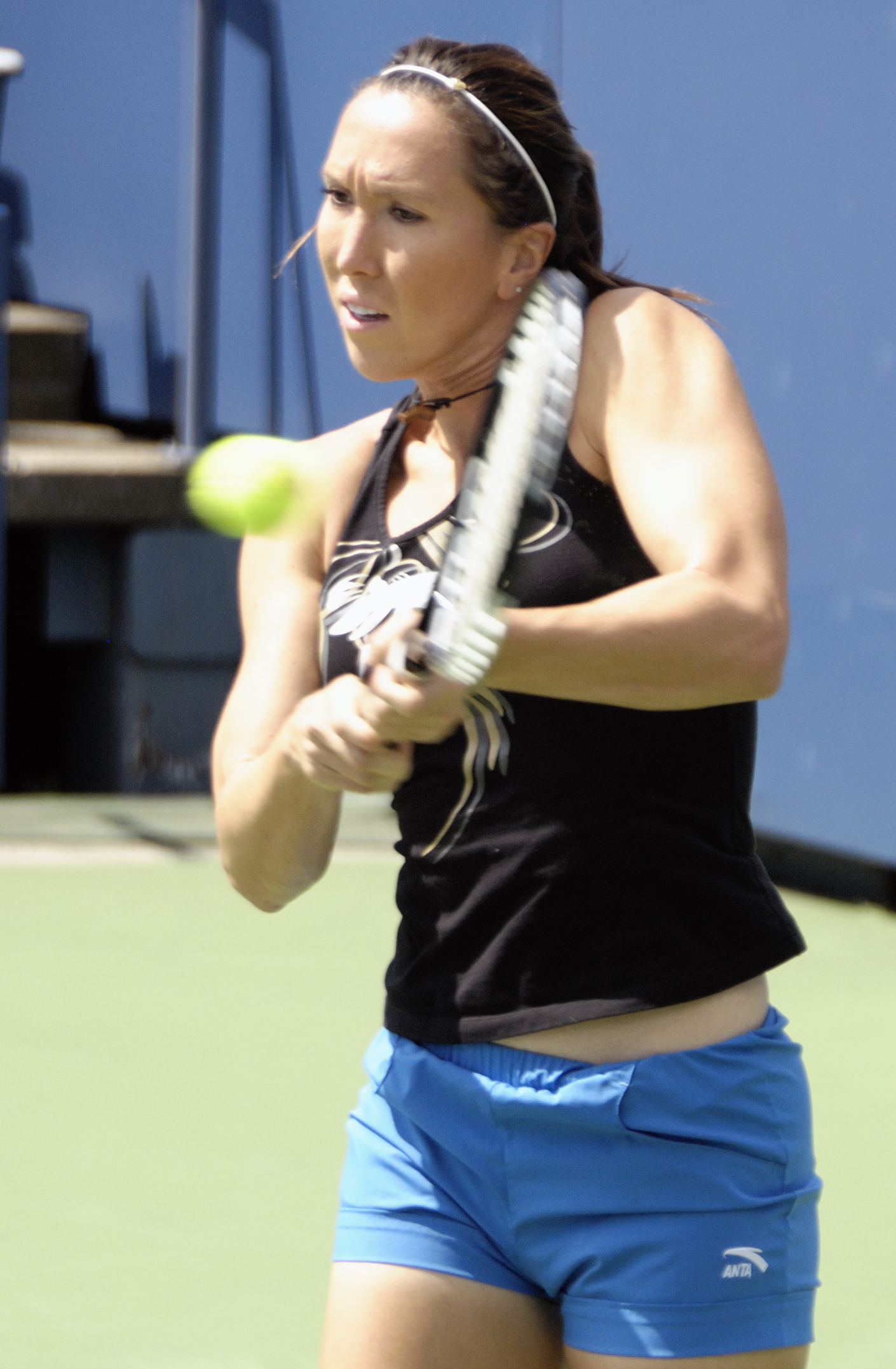 Jelena Janković at the 2009 US Open